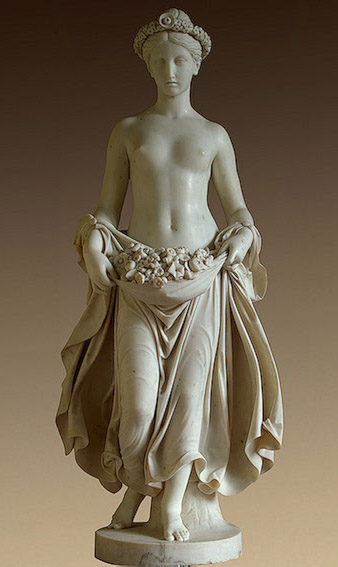 Flora by Pietro Tenerani (1789-1869), italian sculptor, in The State Hermitage Museum, St. Petersburg, Russia